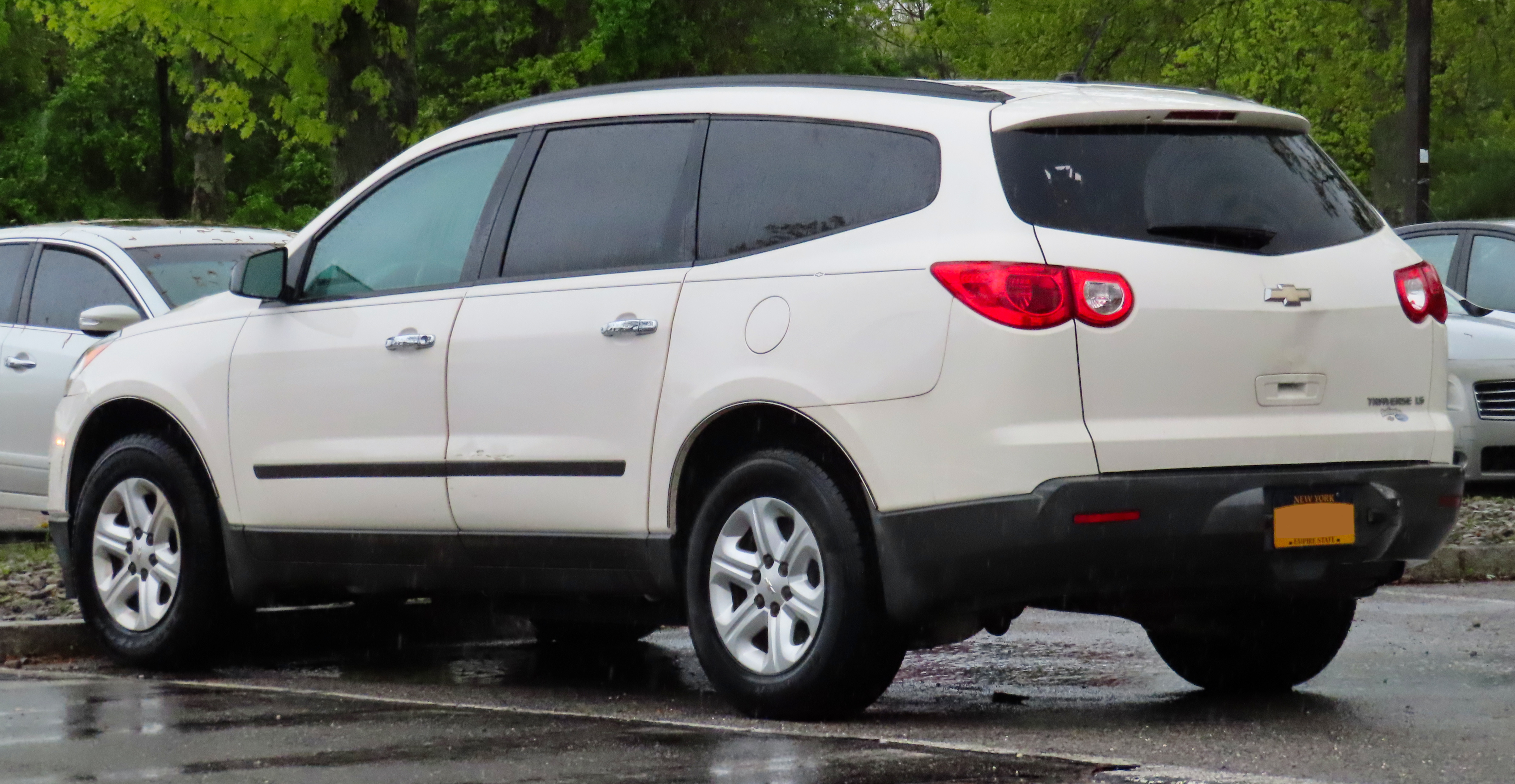 A 2011 Chevrolet Traverse photographed in Long Island, New York, USA